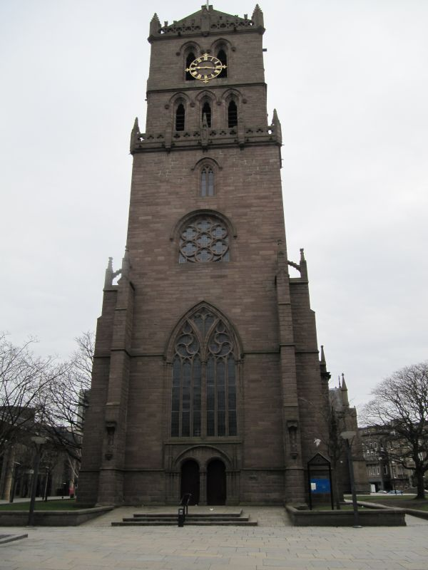 Looking up at the clock Looking up at the clock on top of the bell tower of the Parish church of Dundee